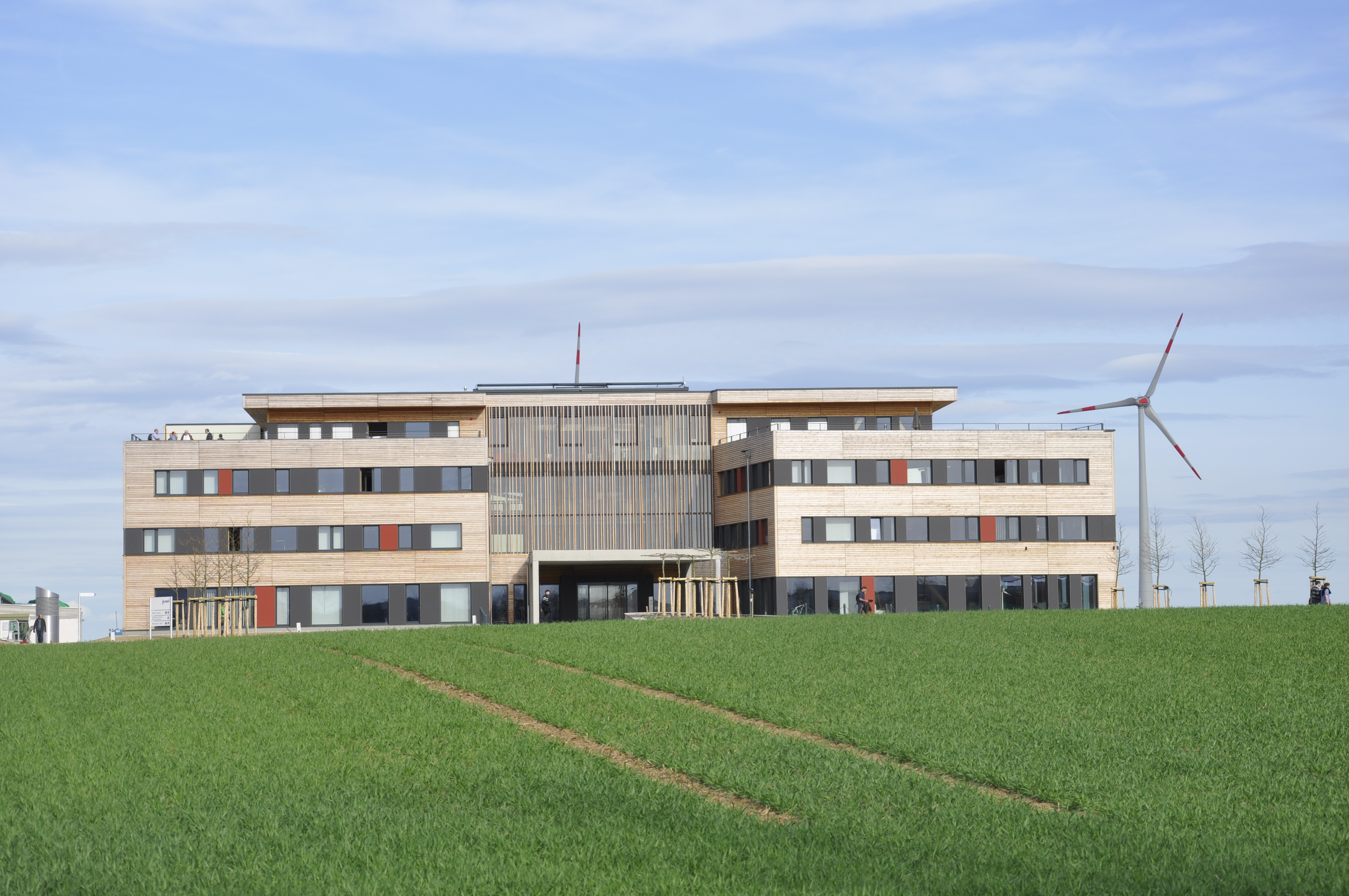 juwi-group, Headquaters in Wörrstadt (Germany)